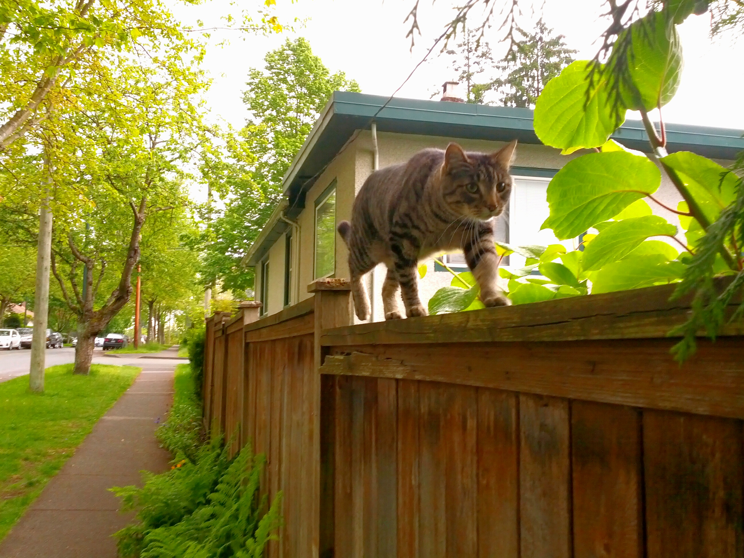 Cat along wooden fence